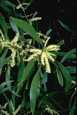 Acacia maidenii leaves and flowers.